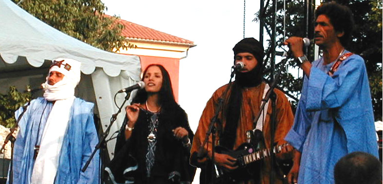 Photo of the Tuareg musical group Tinariwen, taken at the Nice Jazz Festival in Nice, France. Photo altered slightly to remove advertising in the background and bring the musicians slightly closer together.